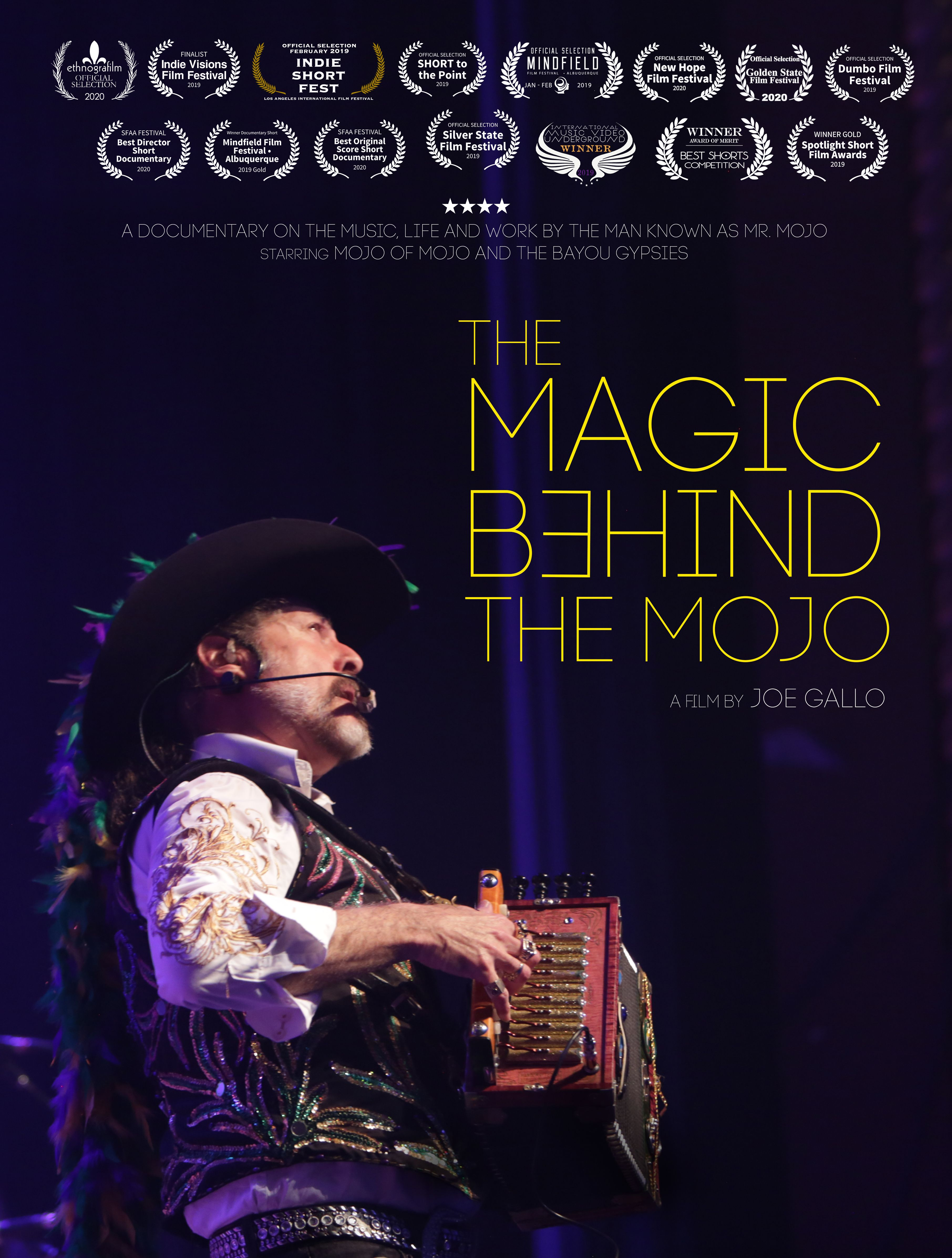 Poster for Documentary film on Mojo of Mjo & The Bayou Gypsies